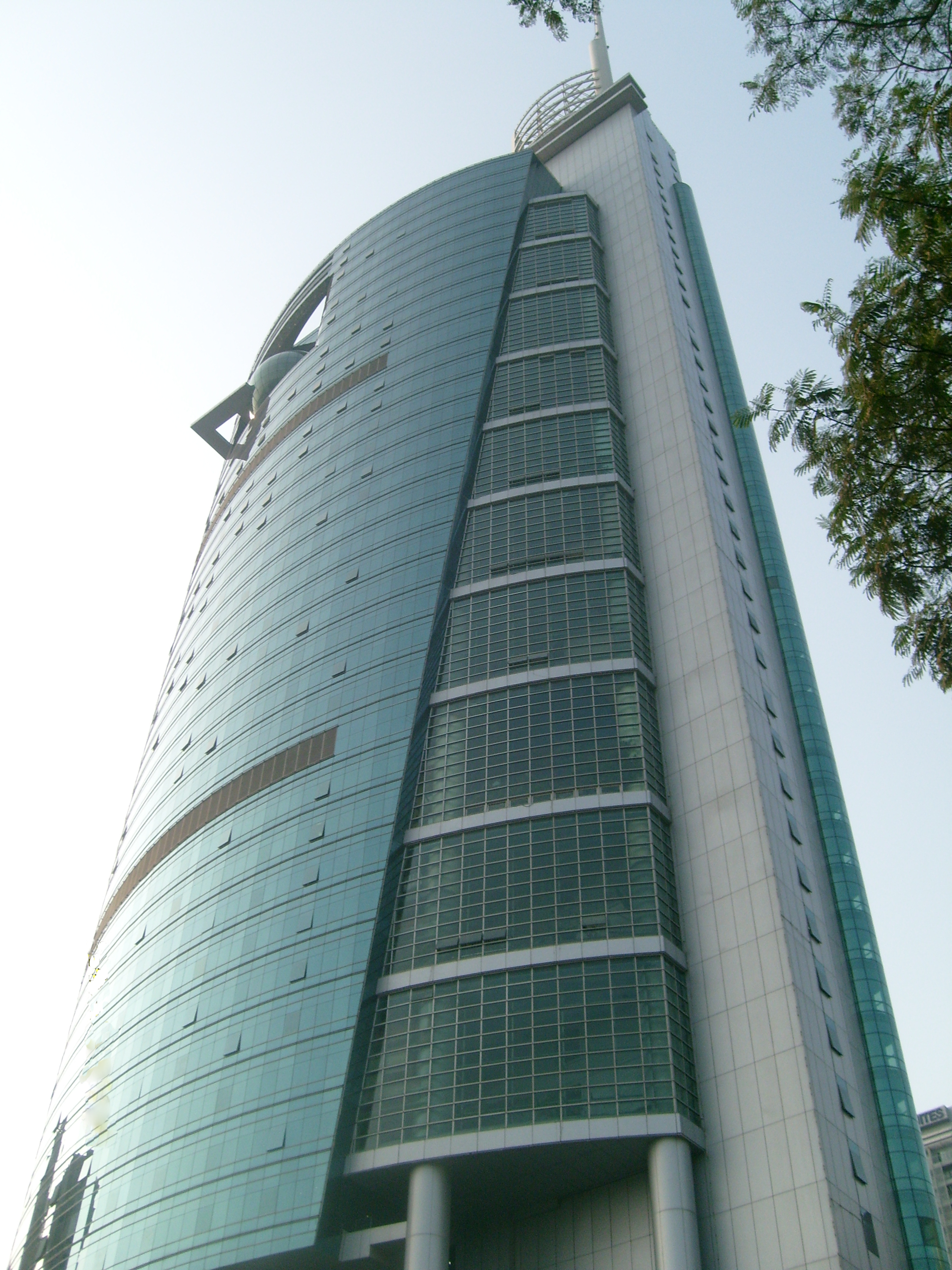 The Shenzhen Special Zone Press Tower in Futian District